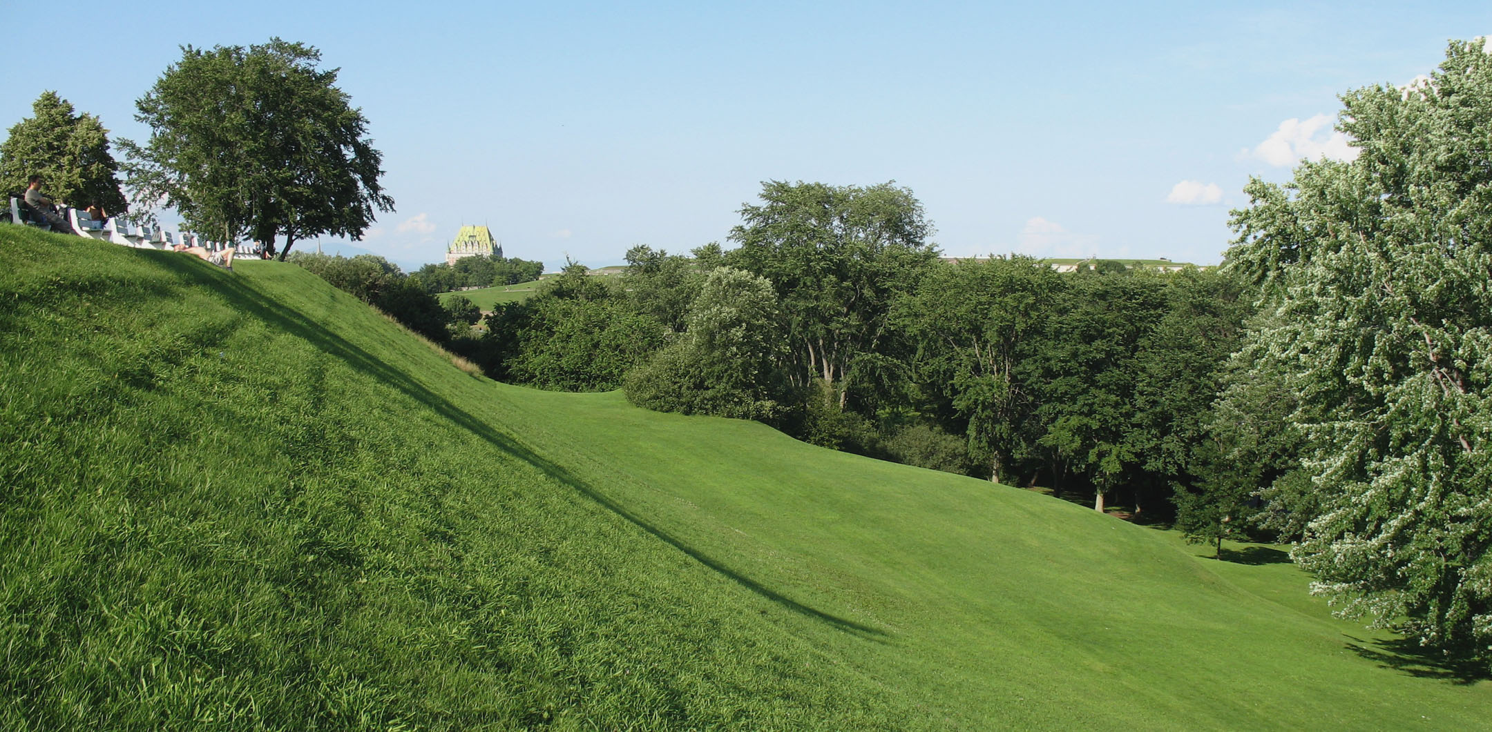 The Plains of Abraham, Battlefield Park, Quebec City, Canada